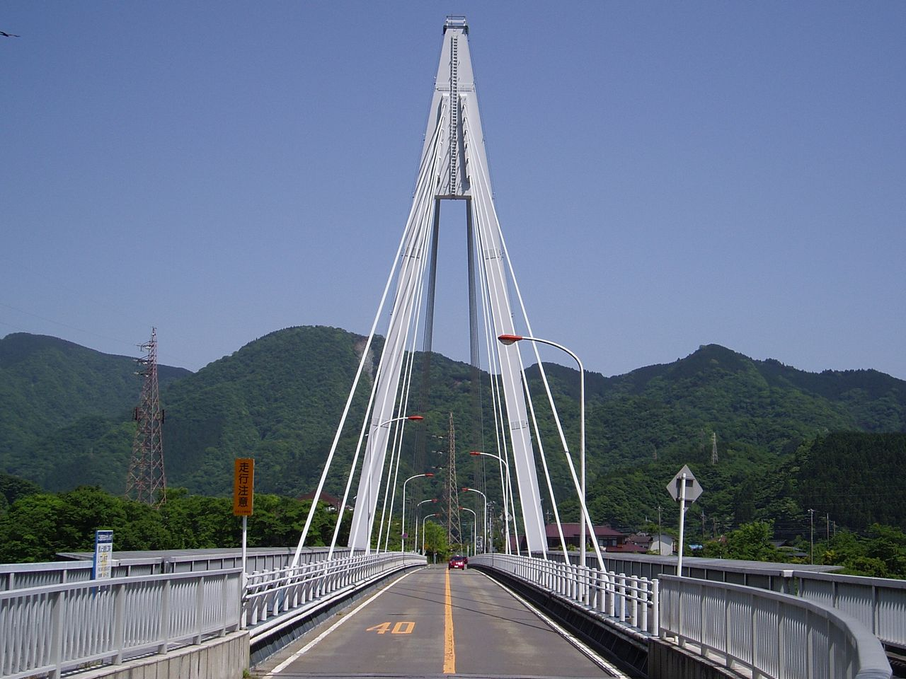 Eisai bridge